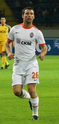 Răzvan Dincă Raţ, defender for FC Shakhtar Donetsk